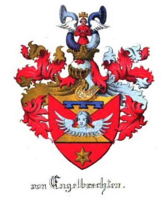 Coat of arms von Engelbrechten; H.Grote 1852